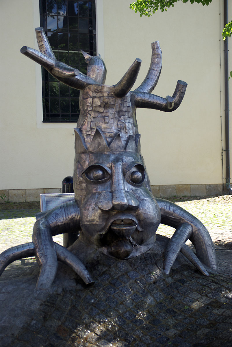 Fountain in Lübbenau/Spreewald, Brandenburg, Germany